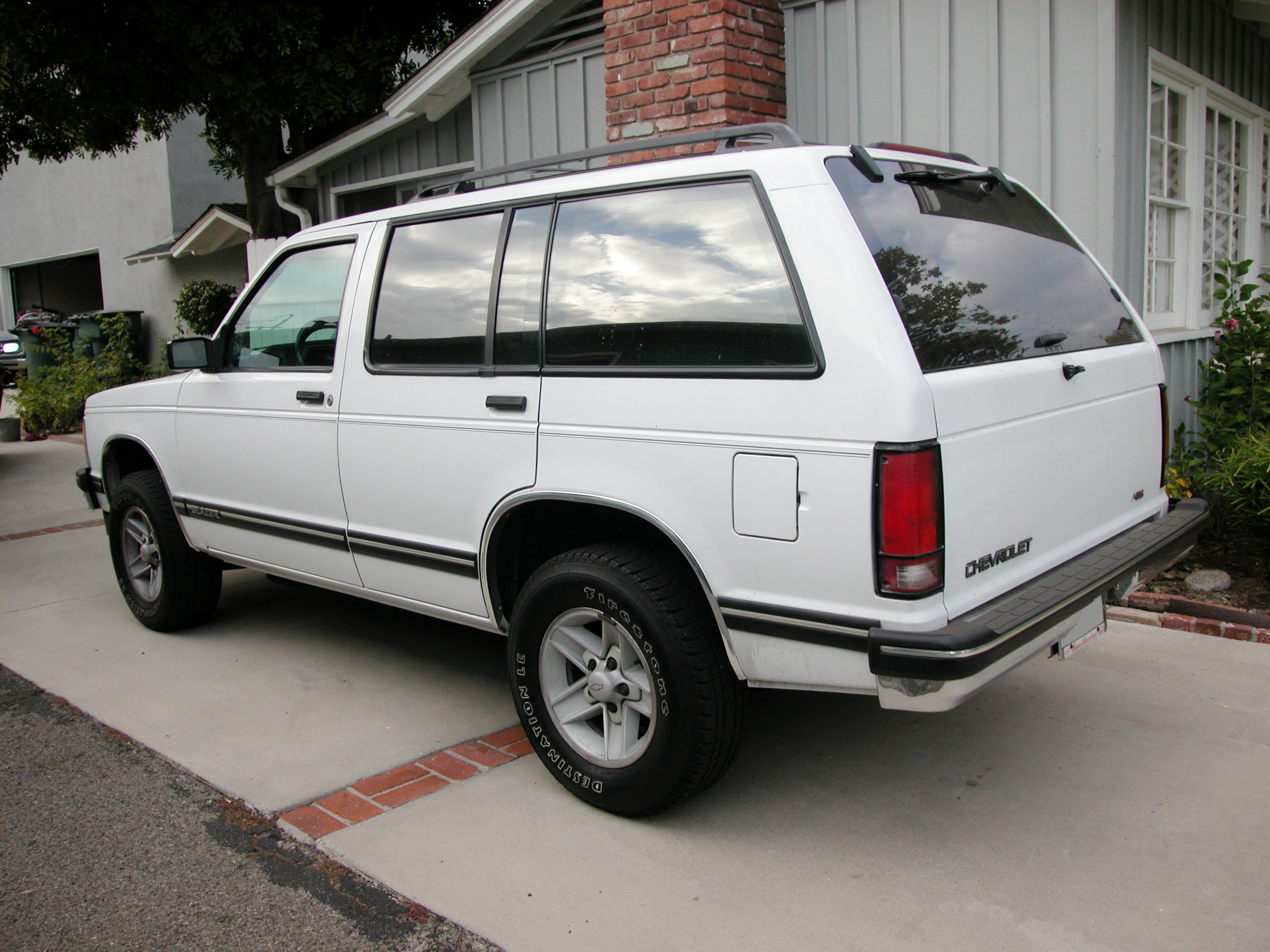 Rear view of a 1994 Chevrolet Blazer LS V6. Camera used was a Nikon Coolpix 5000.